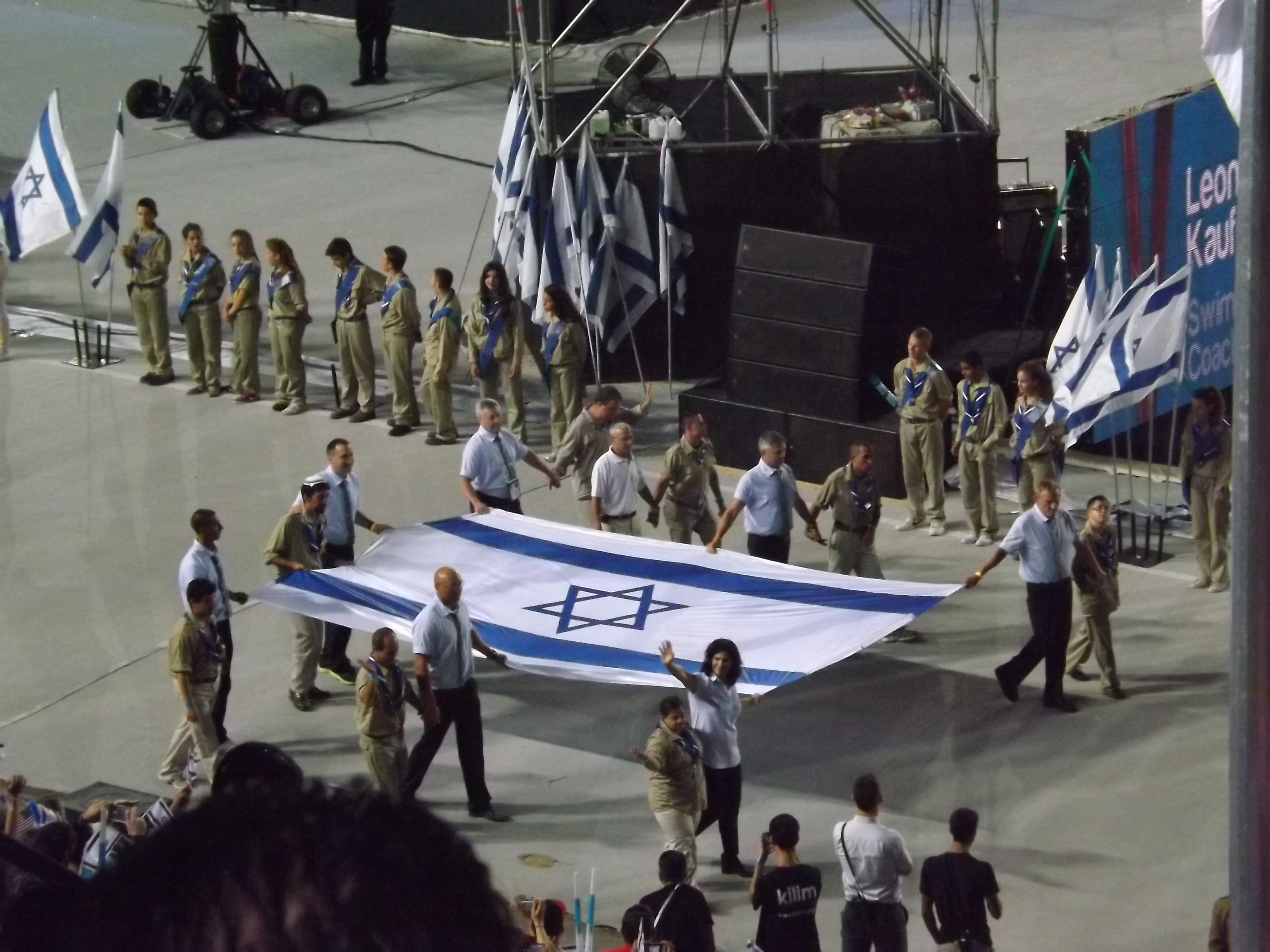 The Israeli flag at the Maccabiah 2013.